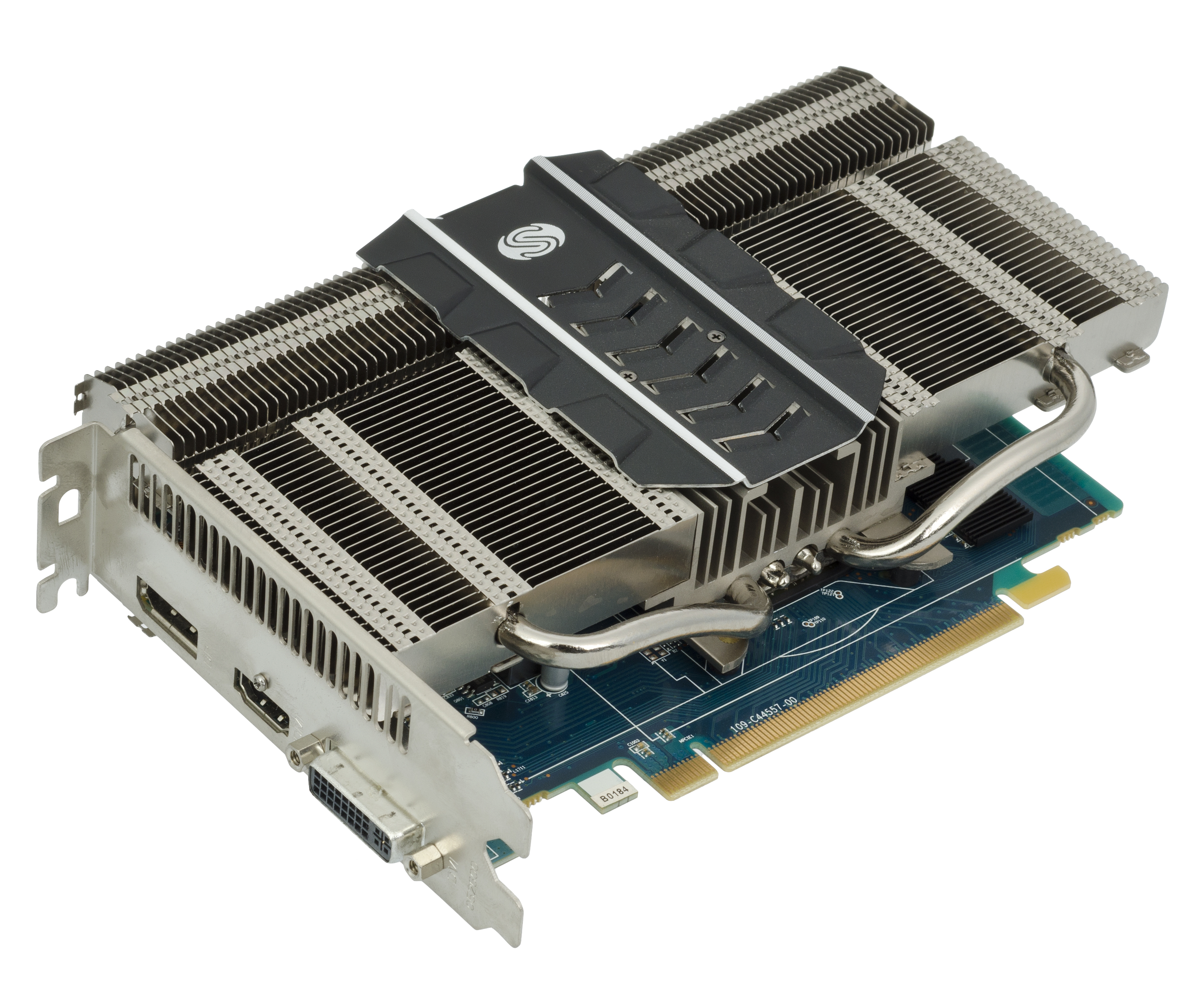 A Sapphire-brand Radeon HD 7750 video card for computer graphics. Specs for the card are: Interface - PCI Express 3.0 x16 Core Clock - 800MHz Memory - 1GB GDDR5 Capable of DirectX 11 and OpenGL 4.2